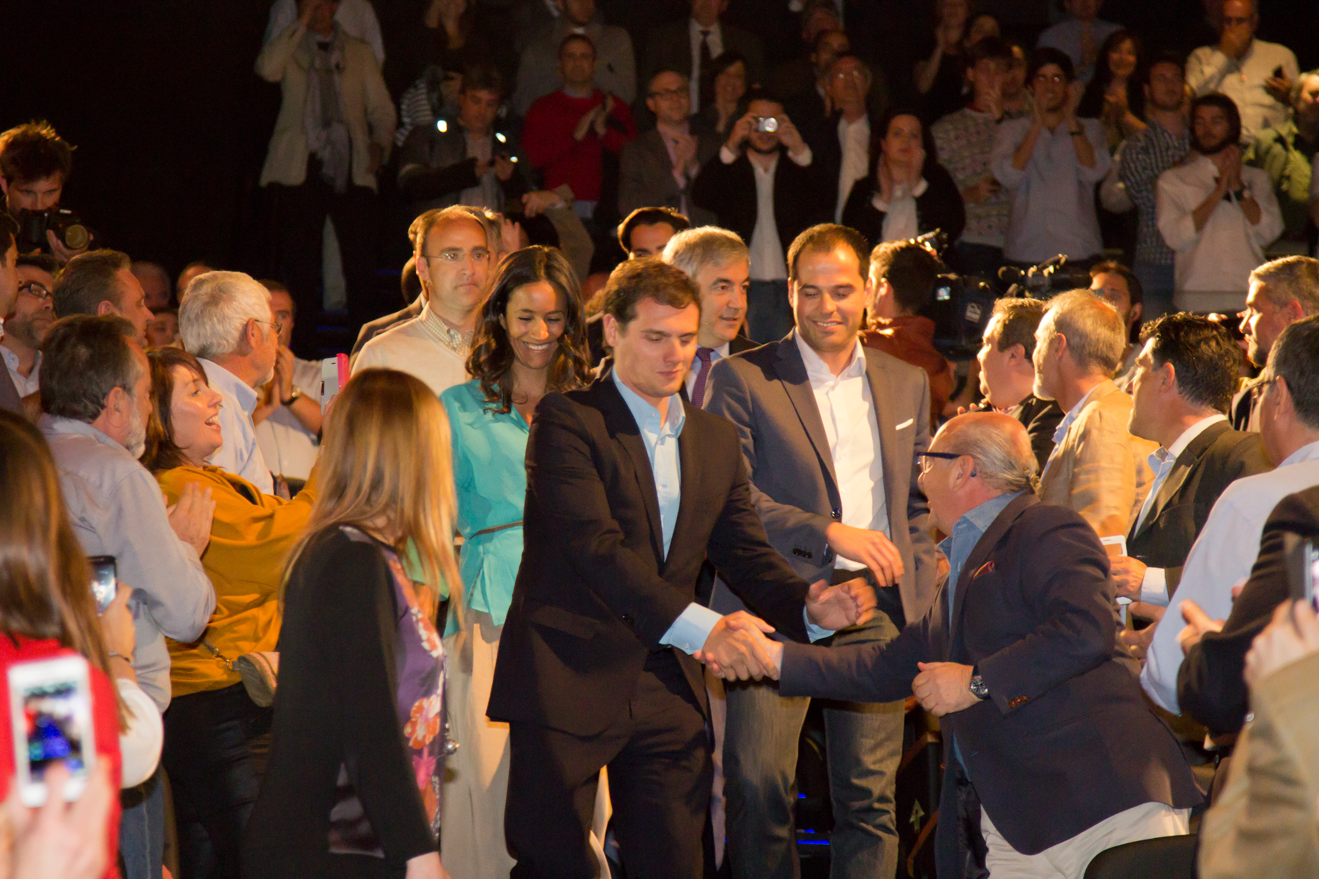 Introduction of economic proposal by Ciudadanos party.